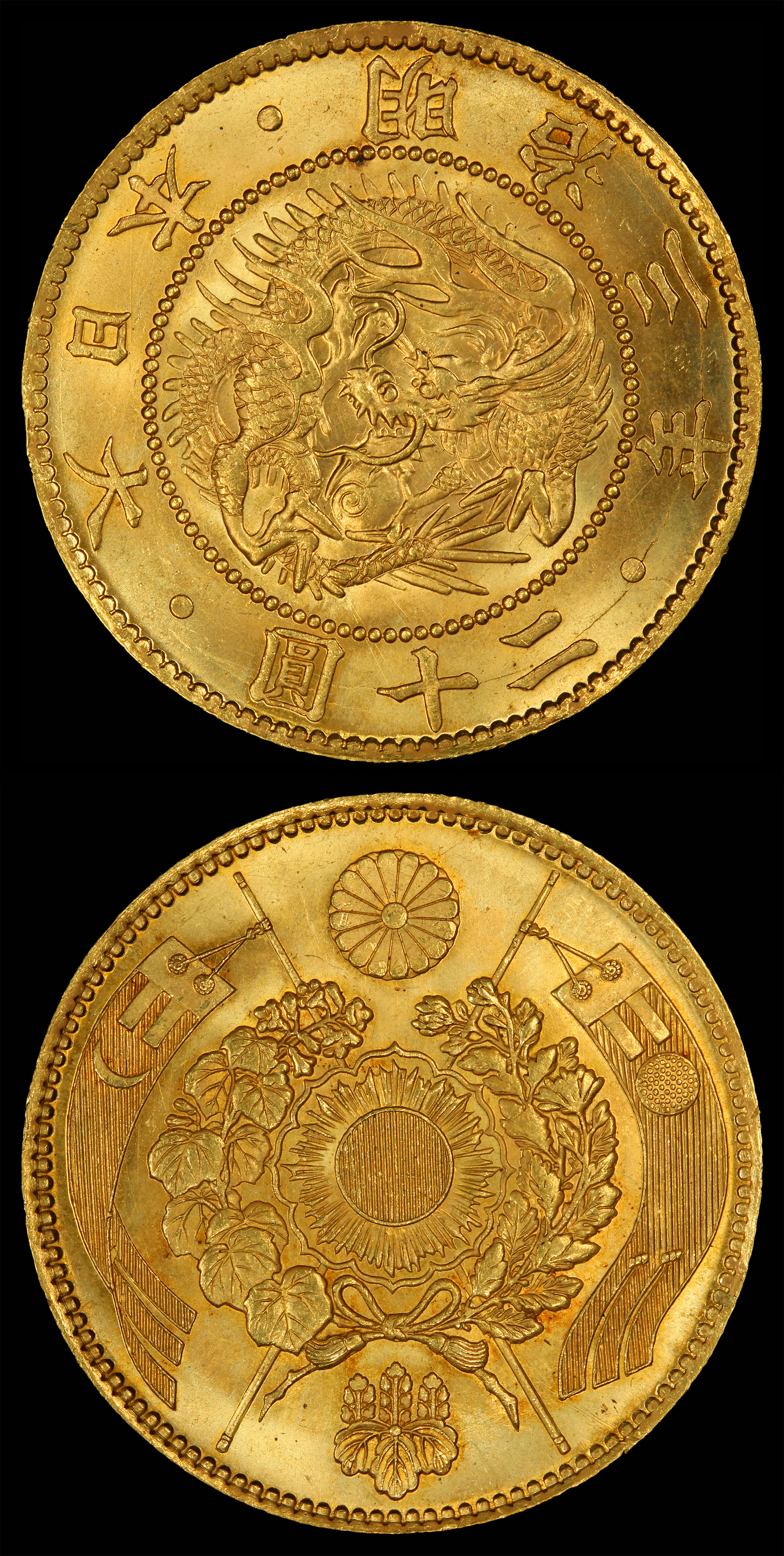 Japan 1870 20 Yen. The Japanese text on the obverse reads, in clockwise direction from top: "Meiji Third Year", "Twenty Yen", "Great Japan". The reverse features a sunburst surrounding a sacred mirror (center), military banners (sides), the Chrysanthemum Seal (top), and Paulownia Crest (bottom).